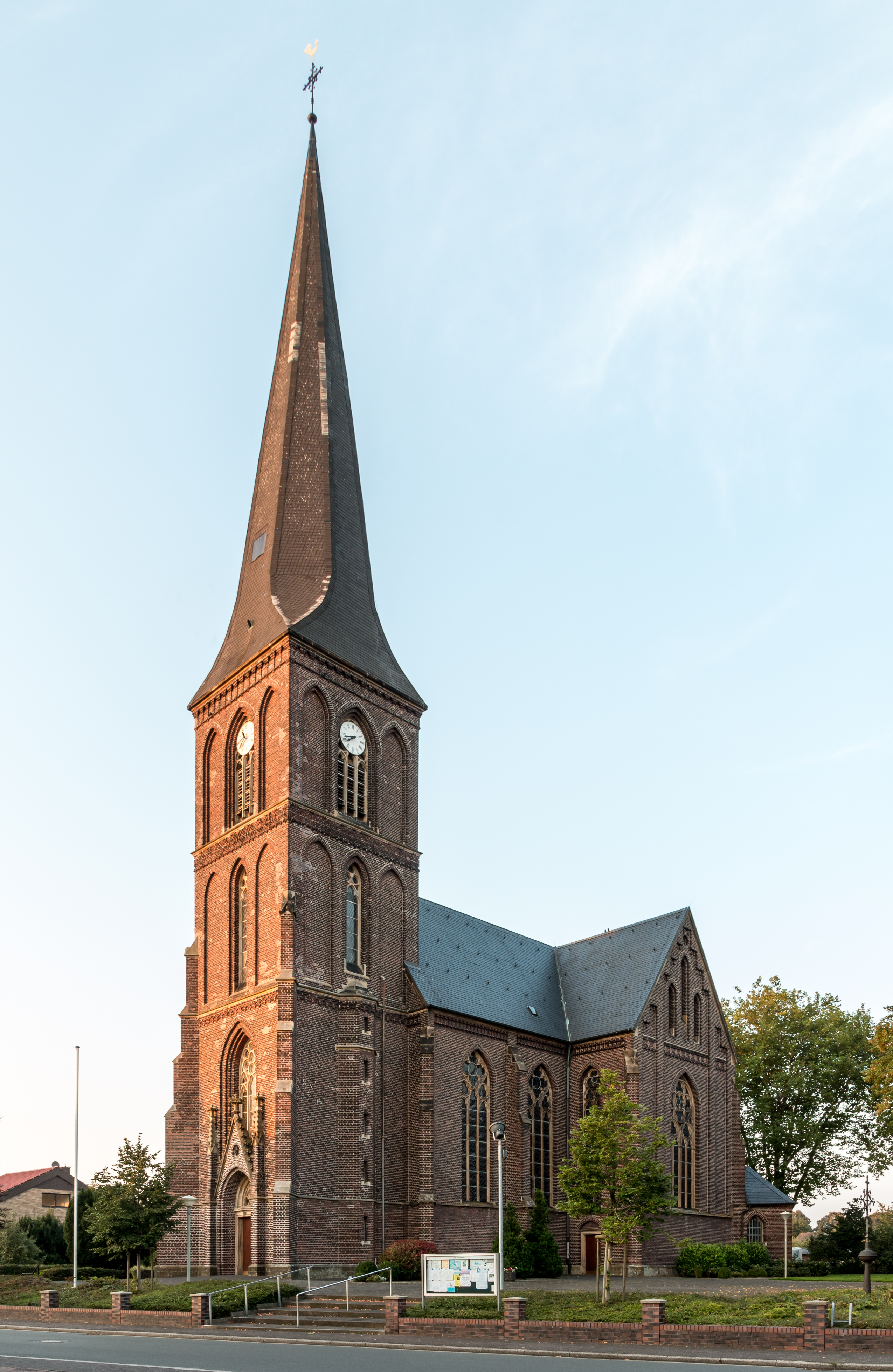 Church of Saint Andreas in Hullern, Haltern am See, North Rhine-Westphalia, Germany This image shows a heritage building in Germany, located in the North Rhine-Westphalian city Haltern am See (no. 6).